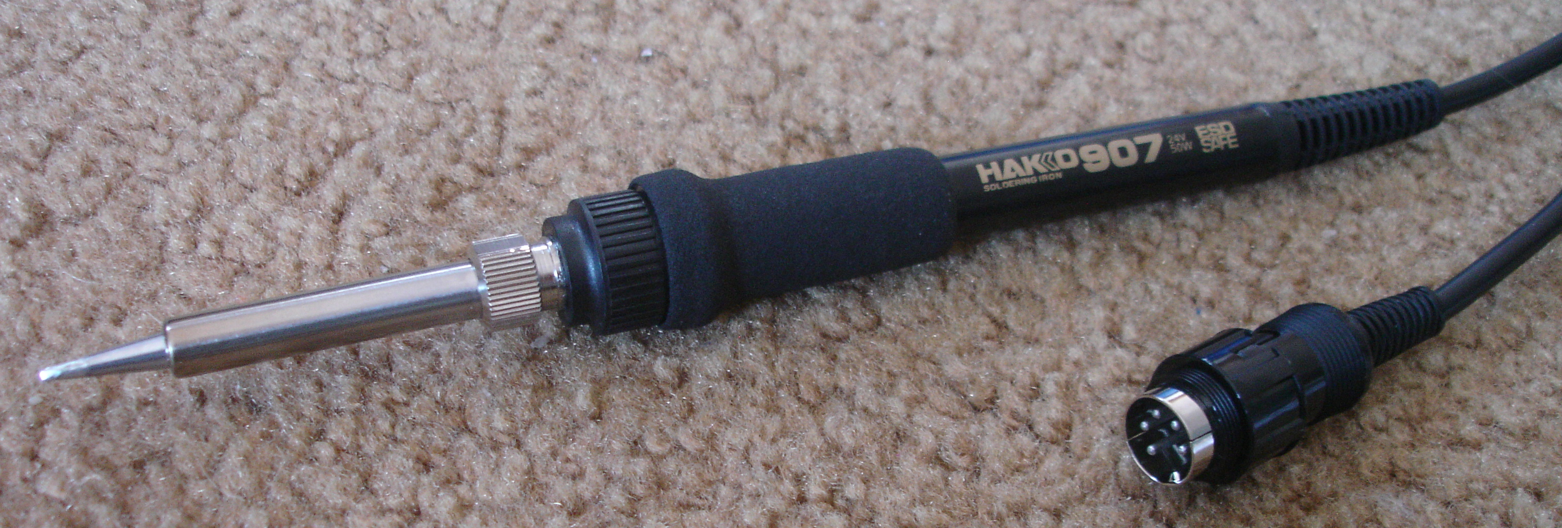 Hakko 907 ESD medium soldering iron.